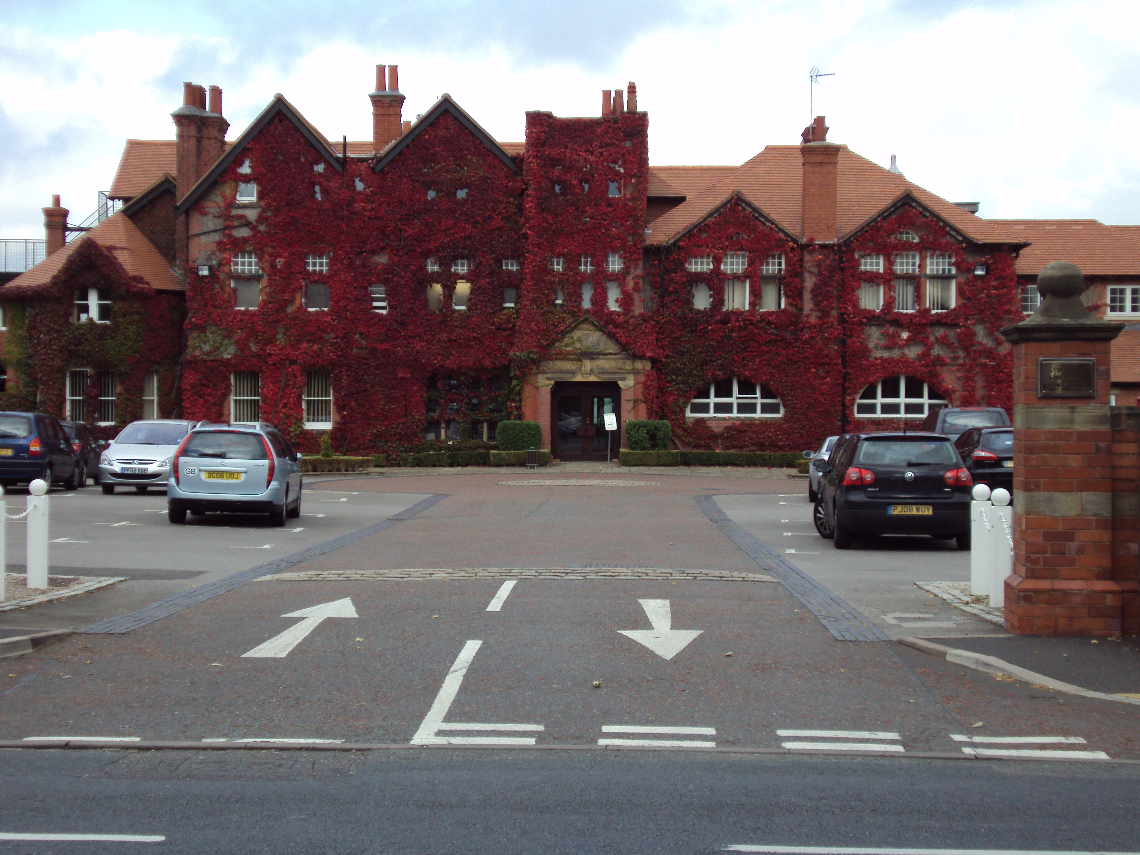 Clubhouse of the Royal Liverpool Golf Club, Meols Drive, Hoylake, Wirral, England.